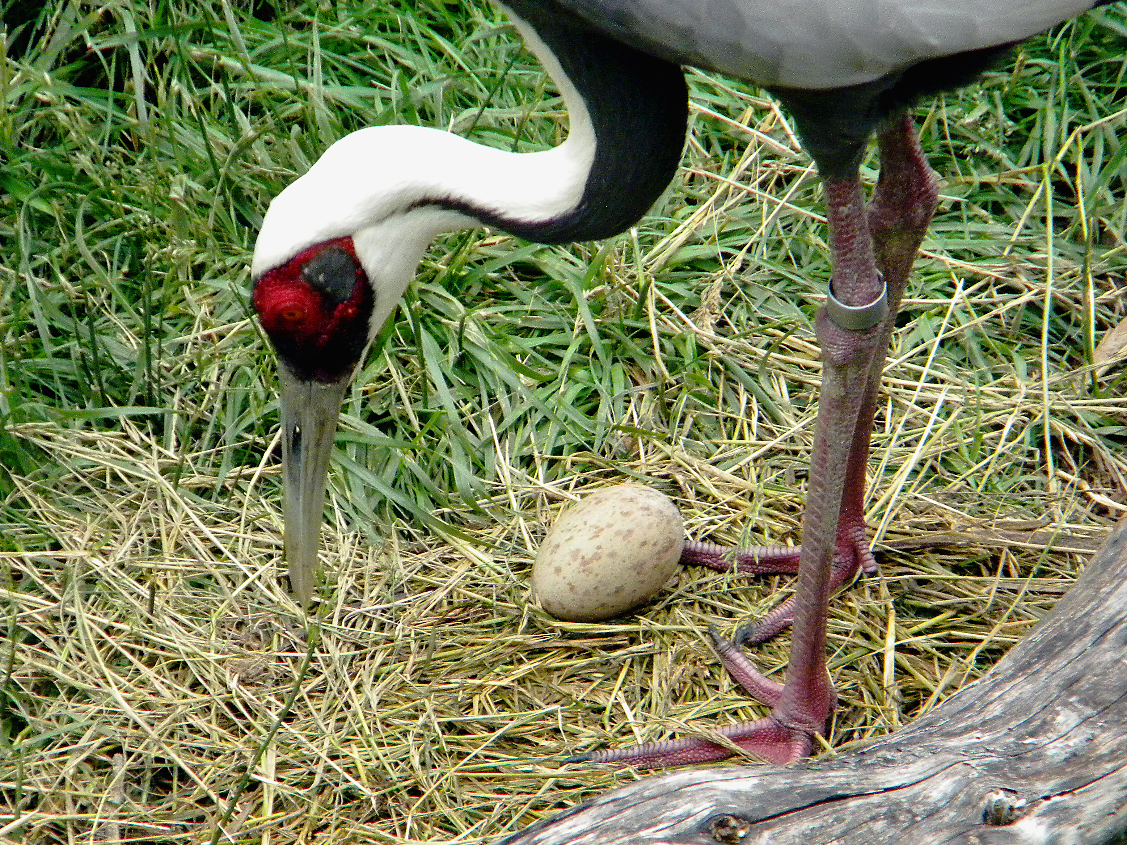 A adult White-naped Crane (Grus vipio) with an egg at the Columbus Zoo, Powell, Ohio, United States.